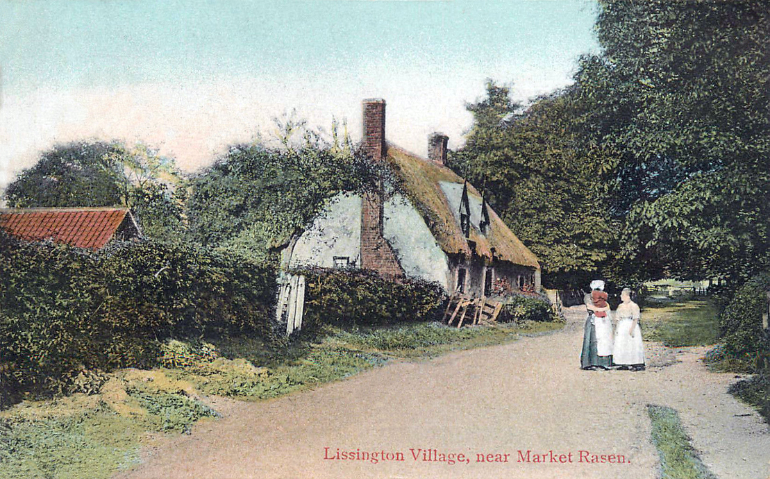 Lissington, Lincolnshire, England. Tinted postcard no later than 1914 per franked stamp on reverse. Published under the Jay Em Jay series